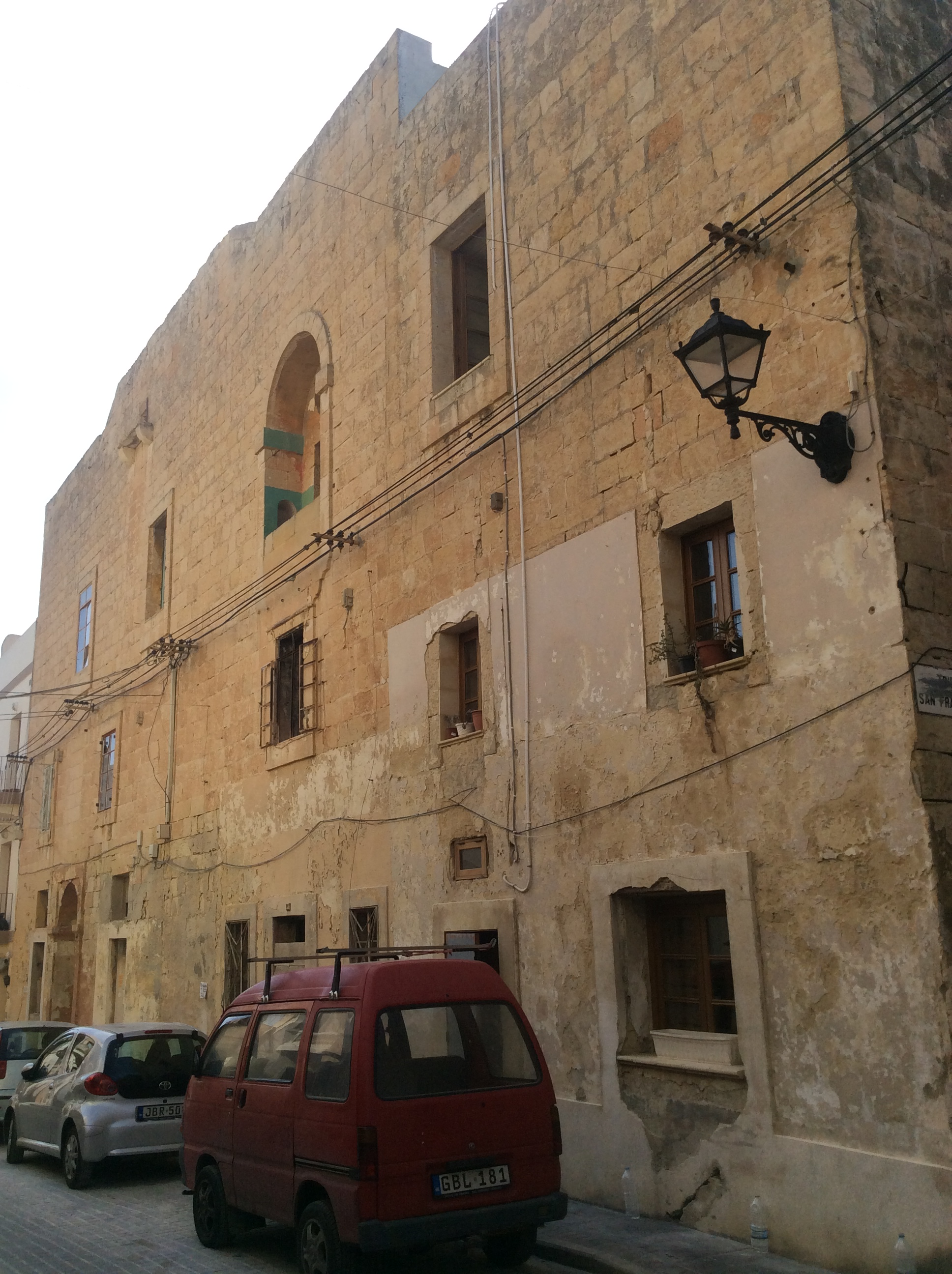 Barracks Building at the rear of Atocia Chapel in Hamrun